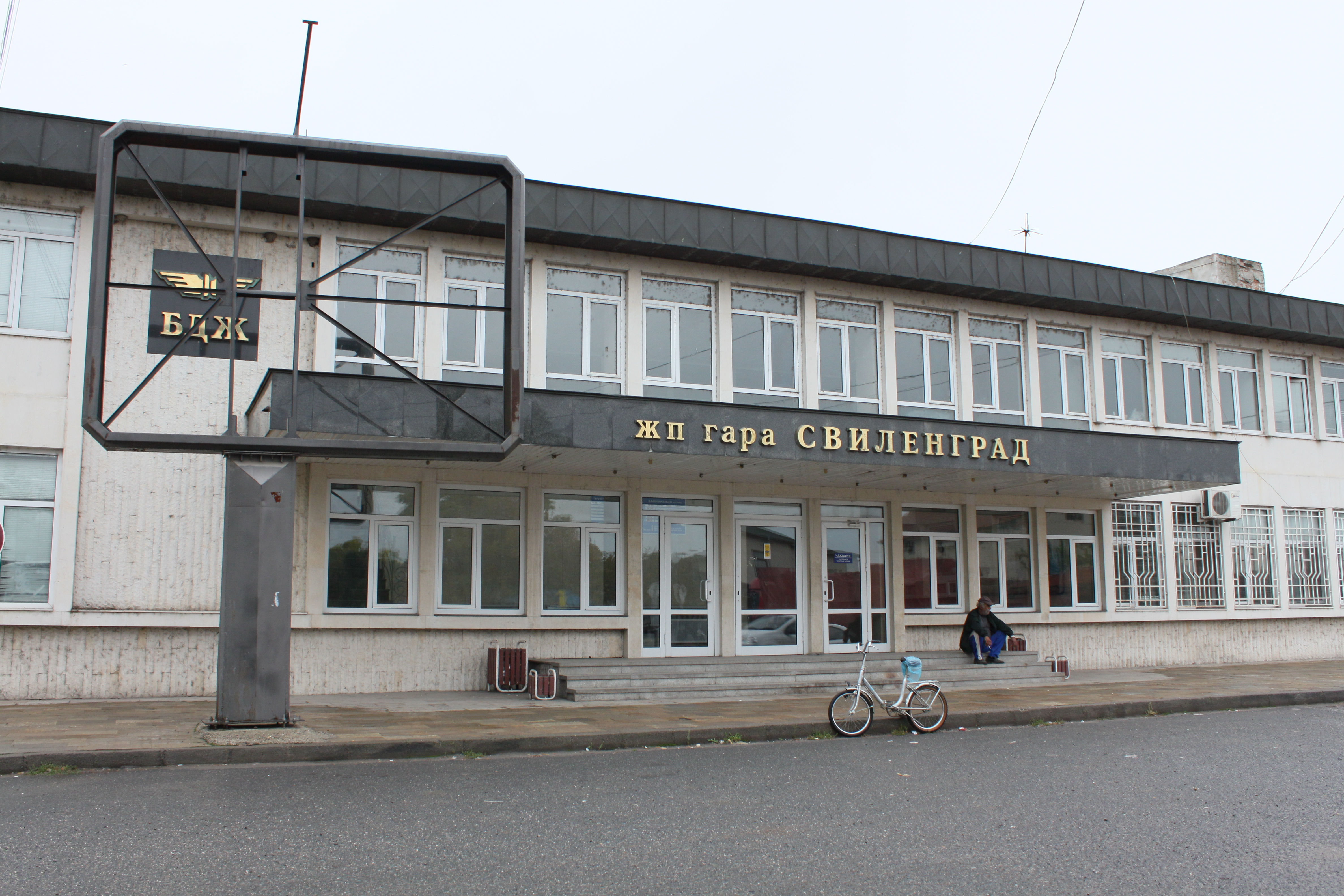 Swilengrad